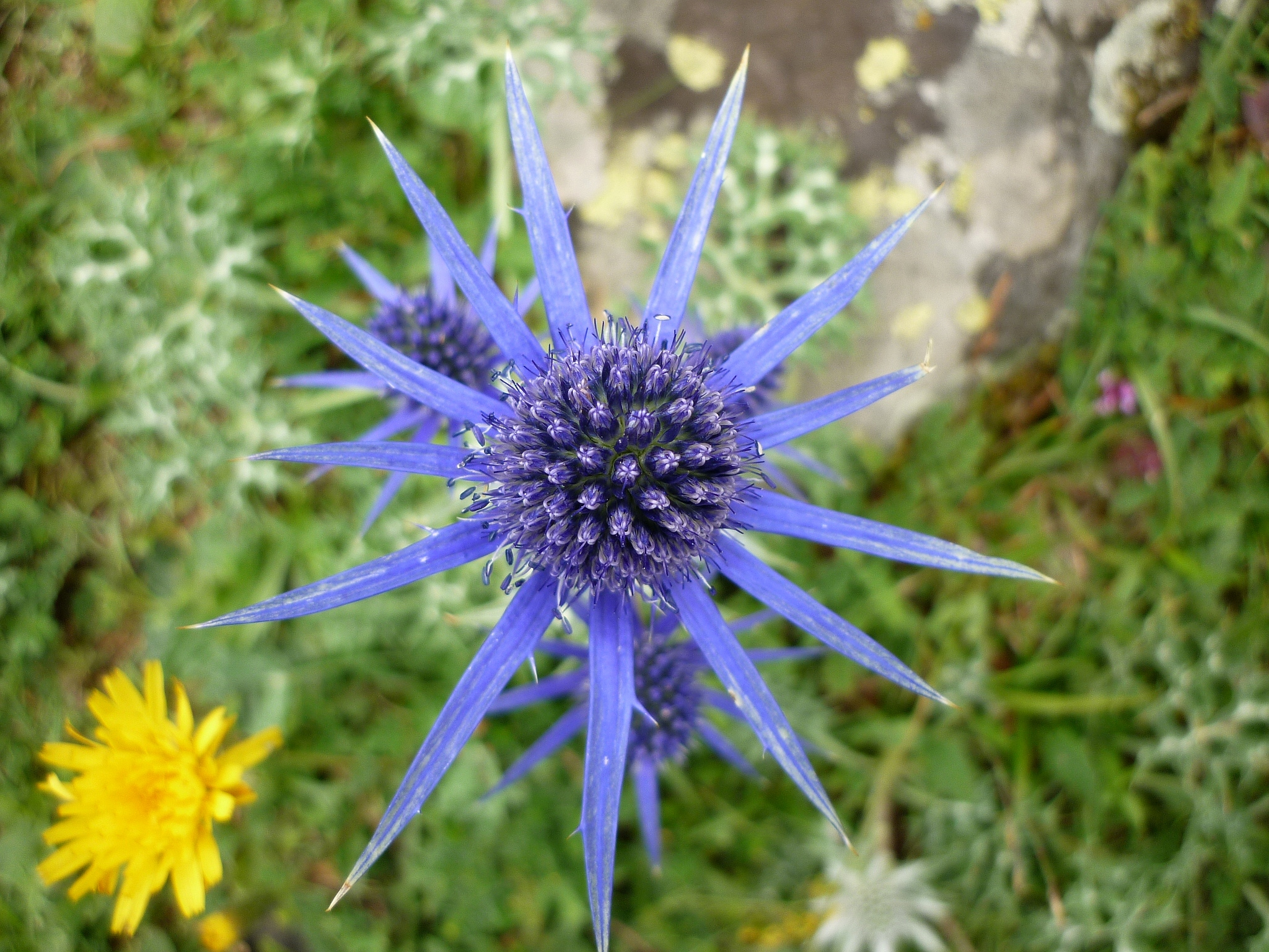 Eryngium bourgatii. In Vielha e Mijaran (Val d'Aran - Catalunya. To 1.465 m altitude